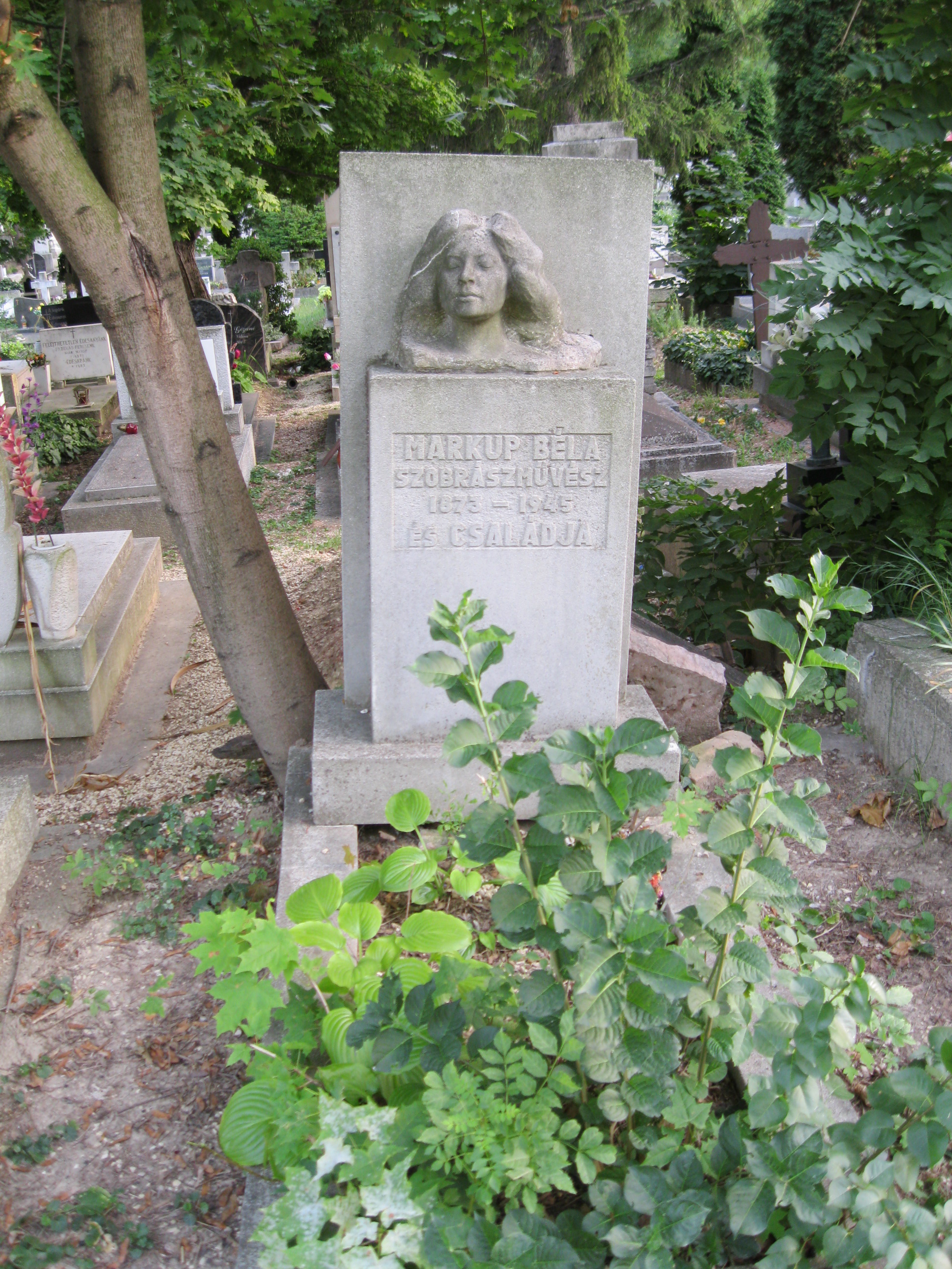 Tomb of Béla Markup in Farkasréti Cemetery [11/1-1-277]. Sculptor: Béla Markup.